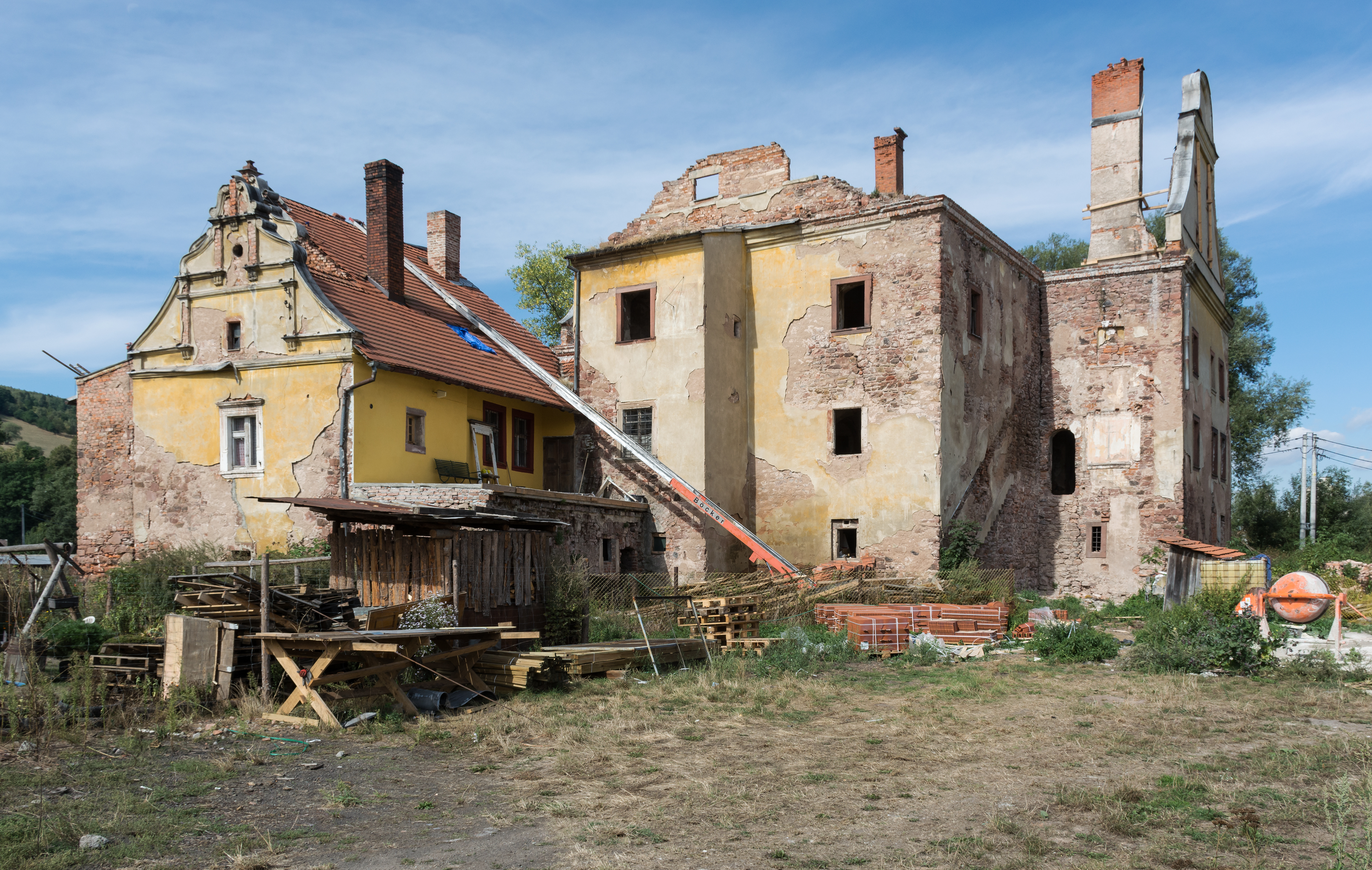 Ścinawka Średnia Castle